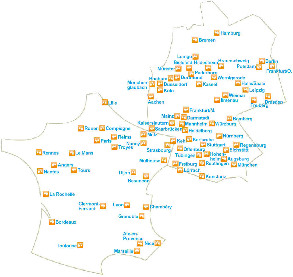 small UFA network map